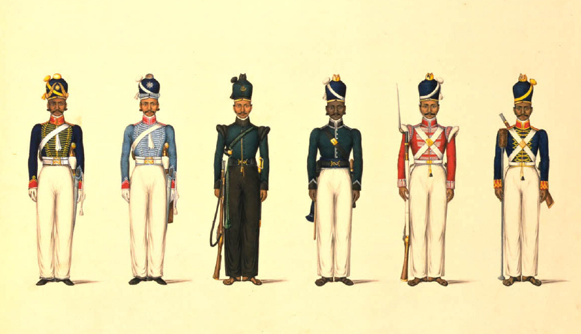 1. Madras Horse Artillery. 2. Madras Light Cavalry. 3. Madras Rifle Corps. 4. Madras Pioneers. 5. Madras Native Infantry. 6. Foot Artillery. From Left to Right